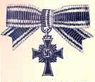 Illustration: Miniature format of the Cross of Honour of the German Mother (Mother's Cross), Civil State Decoration of the Deutsches Reich (German Reich), Conferred from between 1939-1945